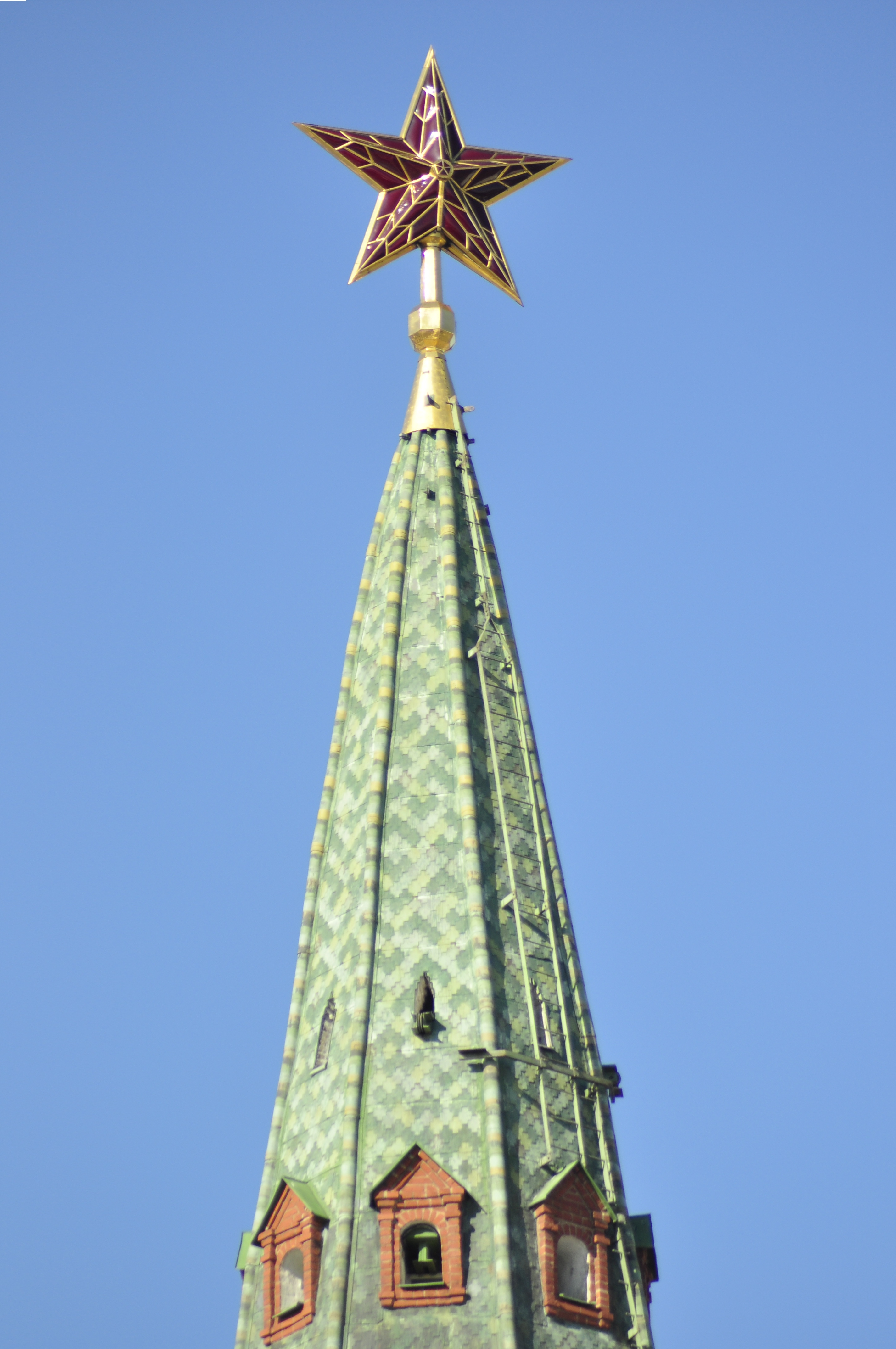 One of the Kremlin's red stars